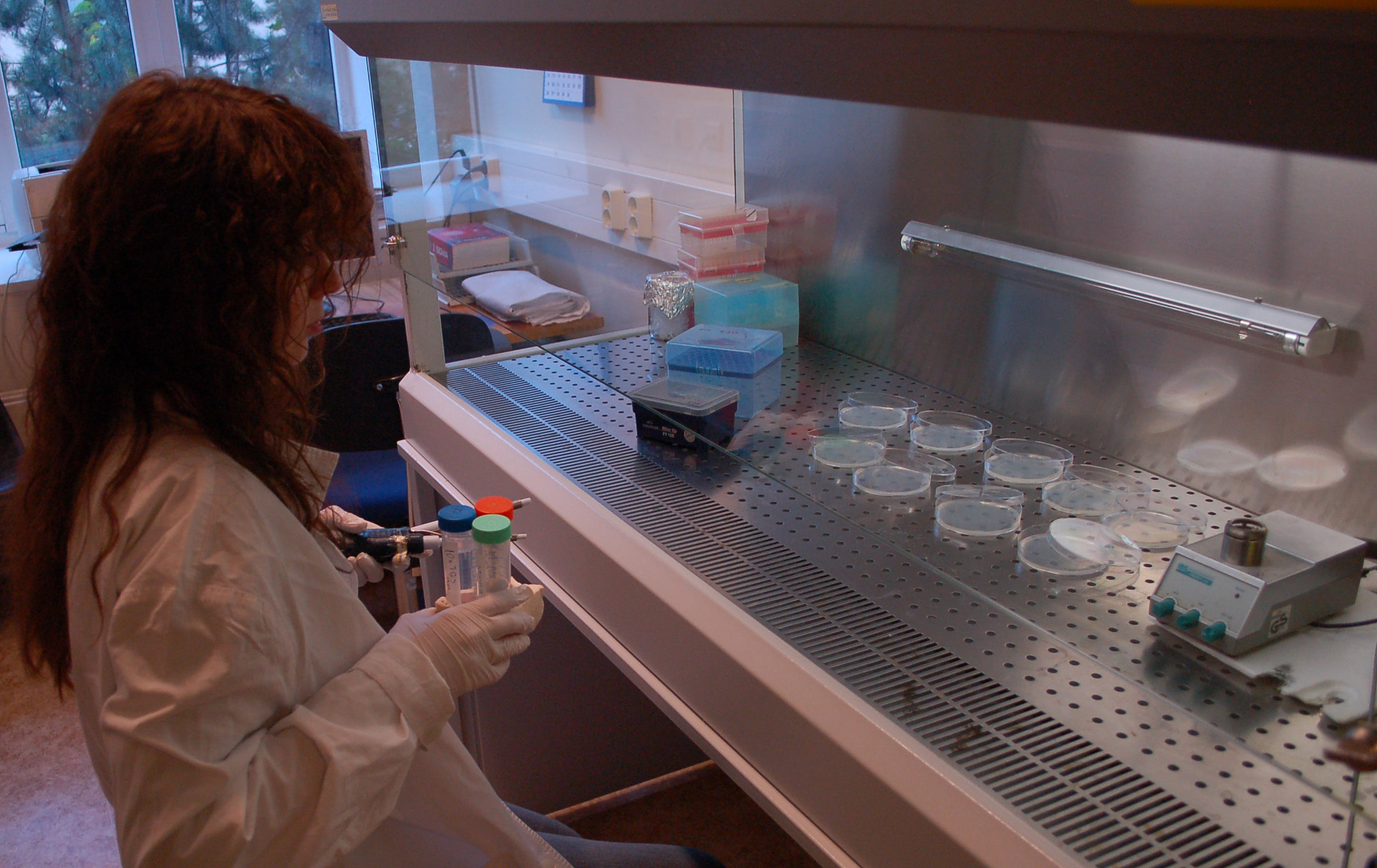 Laminar flow cabinet in University of Tartu.